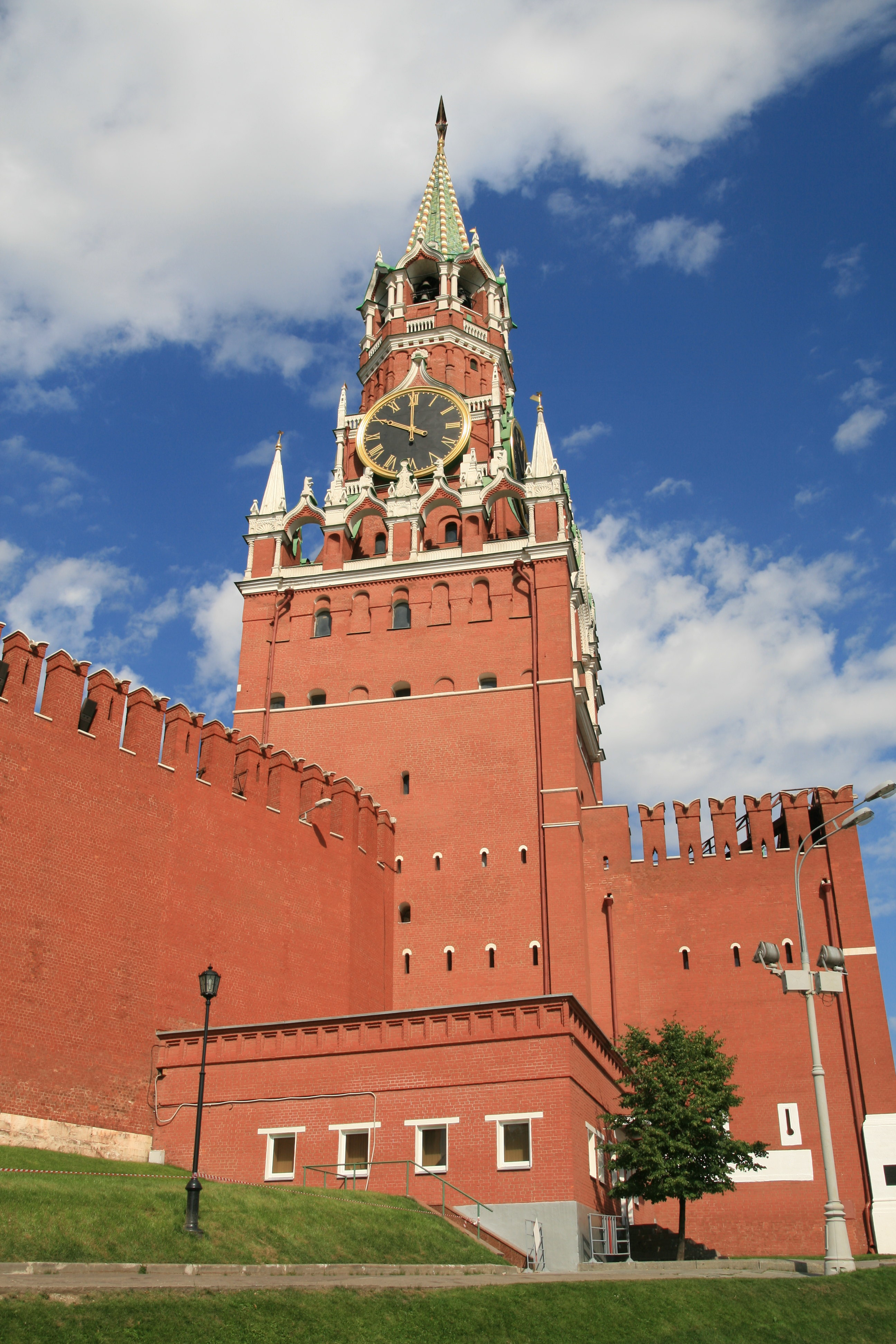 The Spasskaya Tower, often referred to as the Kremlin clock tower, was built in 1491 by Italian architect Pietro Antonio Solari. In 1935, the authorities installed a red star on top of the Spasskaya Tower, giving it a total height of 71 m.